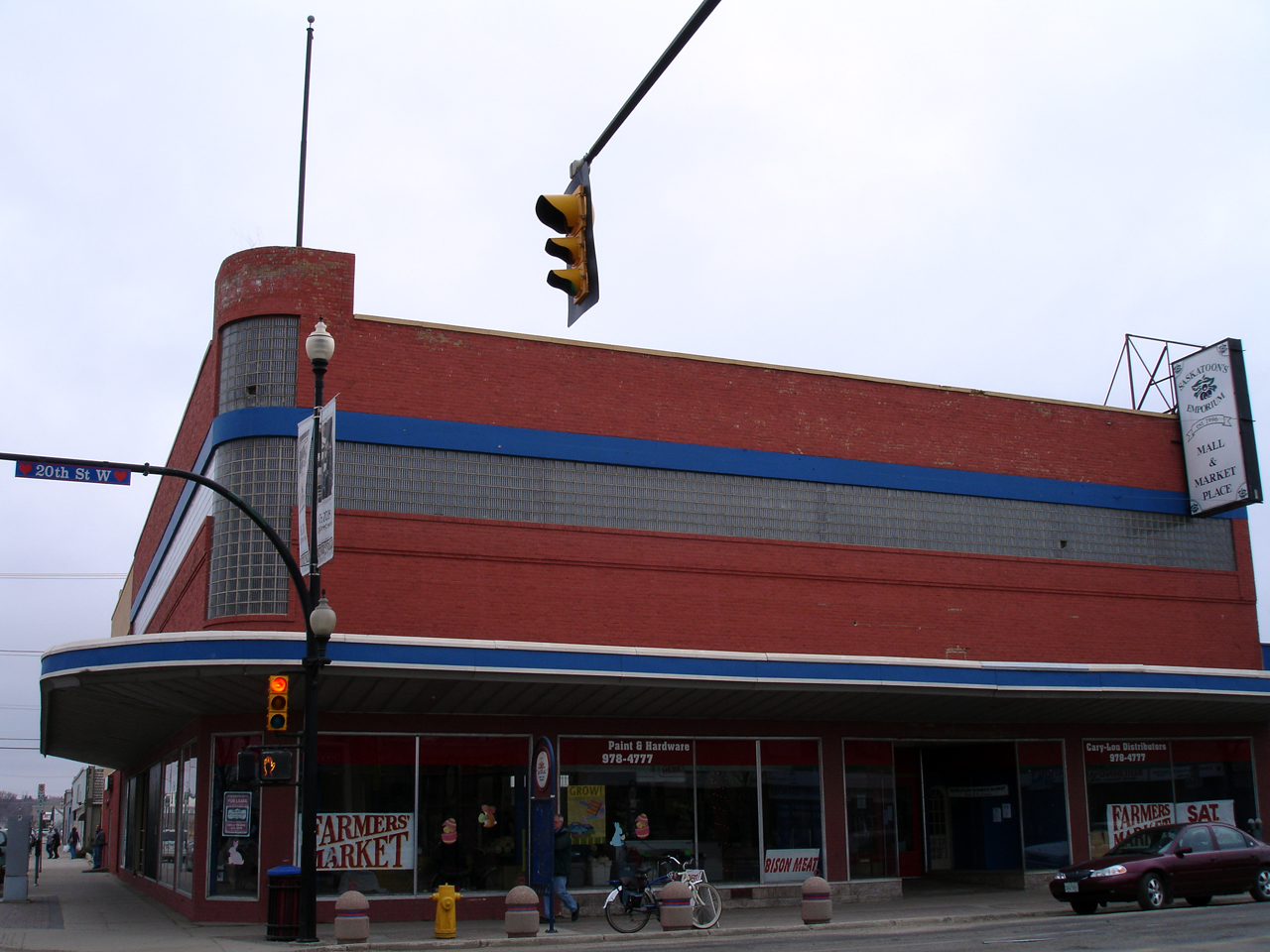 The Adilman Building on the northeast corner of 20th St and Avenue B, in Saskatoon.